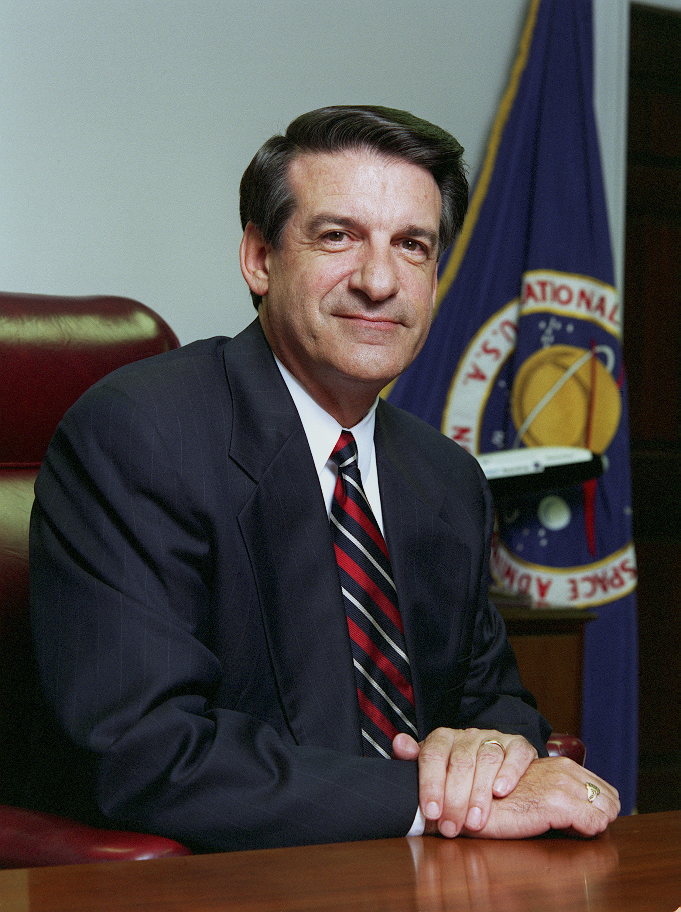 Mr. Arthur G. Stephenson has been serving as the ninth Director of NASA's Marshall Space Flight Center since his appointment on September 11, 1998. Prior to his appointment, Mr. Stephenson worked for TRW, Redondo Beach, California, for 28 years and was president of Oceaneering Advanced Technologies in Houston, Texas, at the time of his appointment. Mr. Stephenson has over 30 years of experience as a manager in spacecraft and high-technology systems.